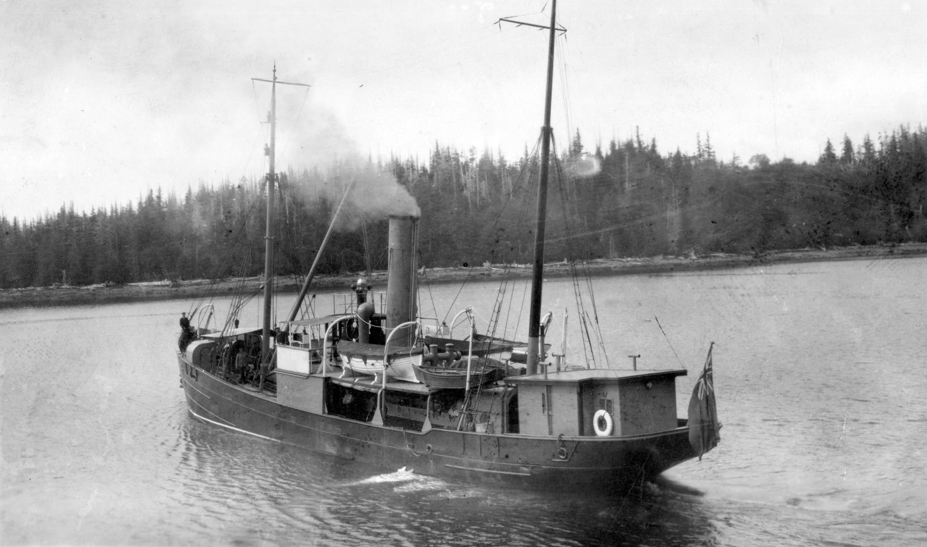 The Canadian Government steamer Newington, location not specified. Taken while in government service, either during 1908-1914, or 1920-1937.